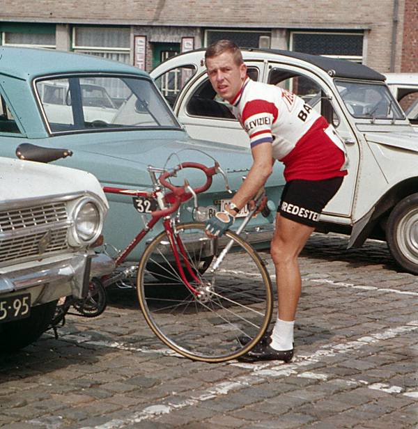 No teams of helpers - get the bike out of the car and pump up the tyres.